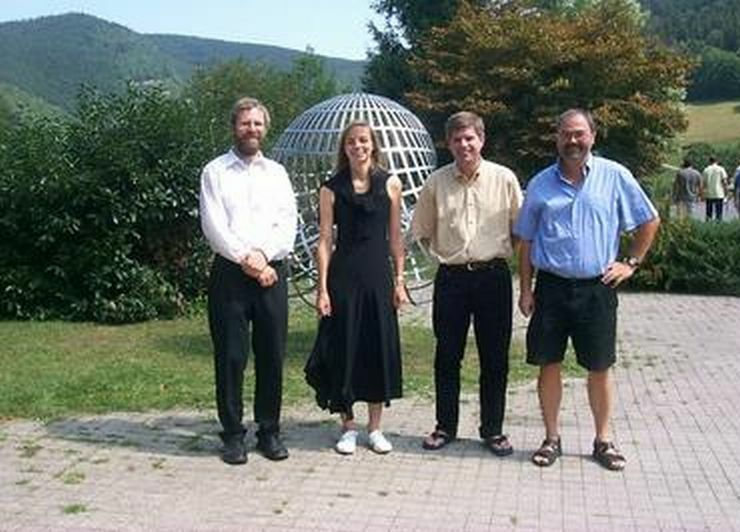 From left: Torben Hagerup, Susanne Albers, David P. Williamson, Kurt Mehlhorn, in Oberwolfach 2003